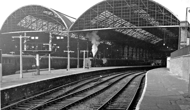 Birkenhead Woodside Station. View towards buffer-stops, when this station was the principal main-line station in Birkenhead and the terminus (jointly owned by the GWR and LMSR before Nationalisation) of the main line from Chester, Birmingham and London (Paddington). The terminus and its short connecting branch from Blackpool Street was closed on 5/11/67.